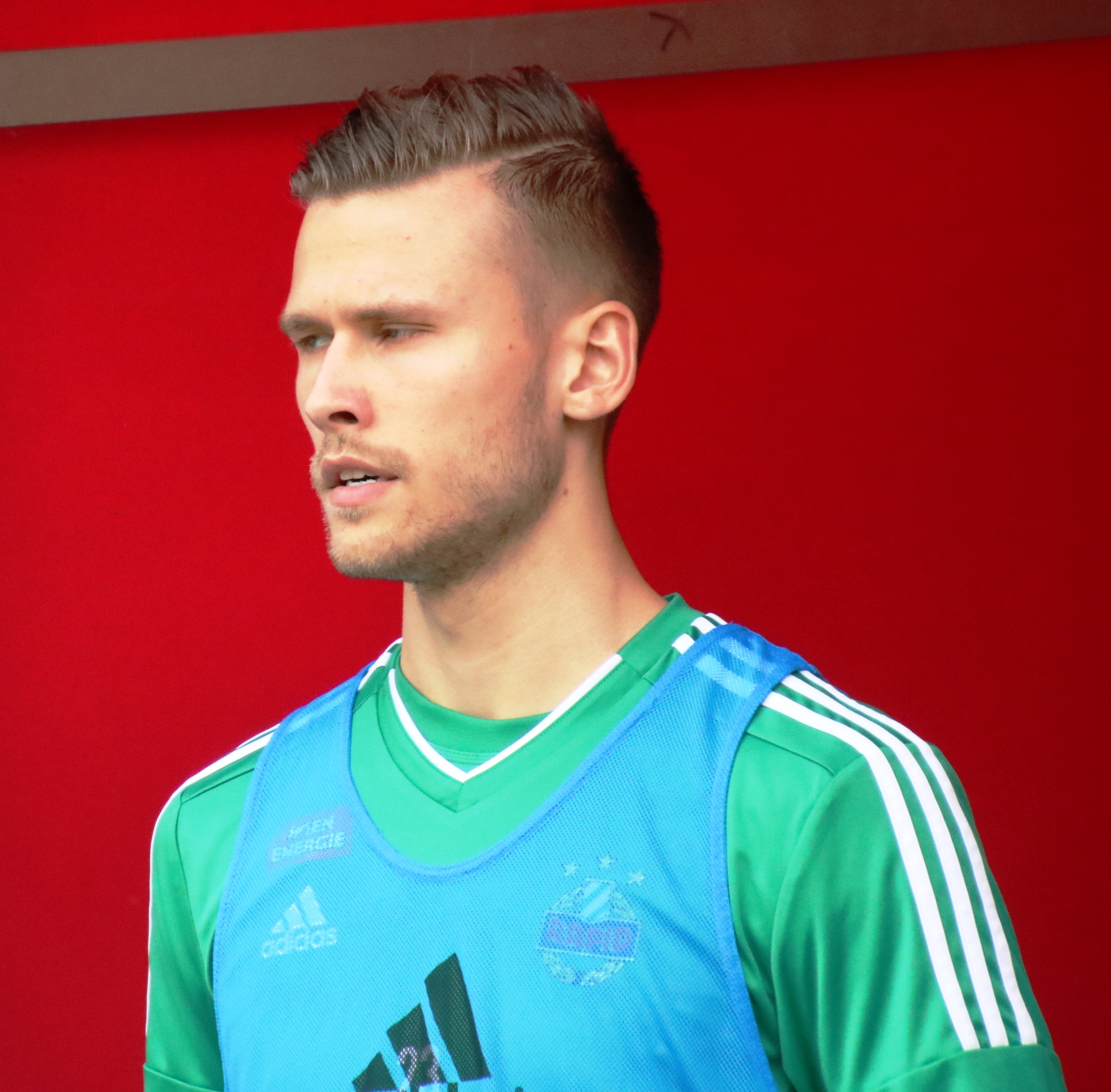 league match Austrian Bundesliga